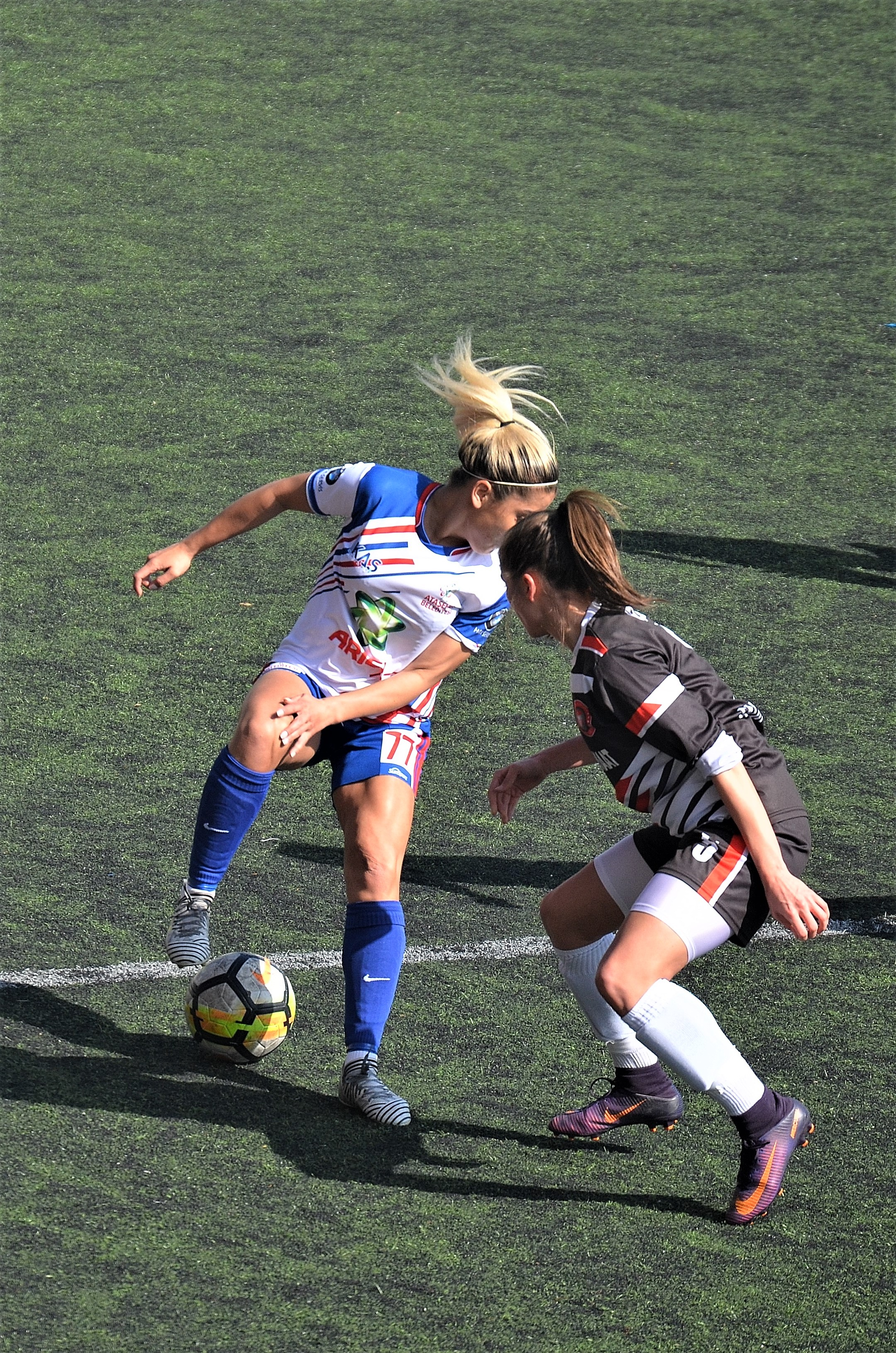 Sevgi Çınar (left) of Ataşehir Belediyespor in the 2017-18 Turkish Women's Fitst League.